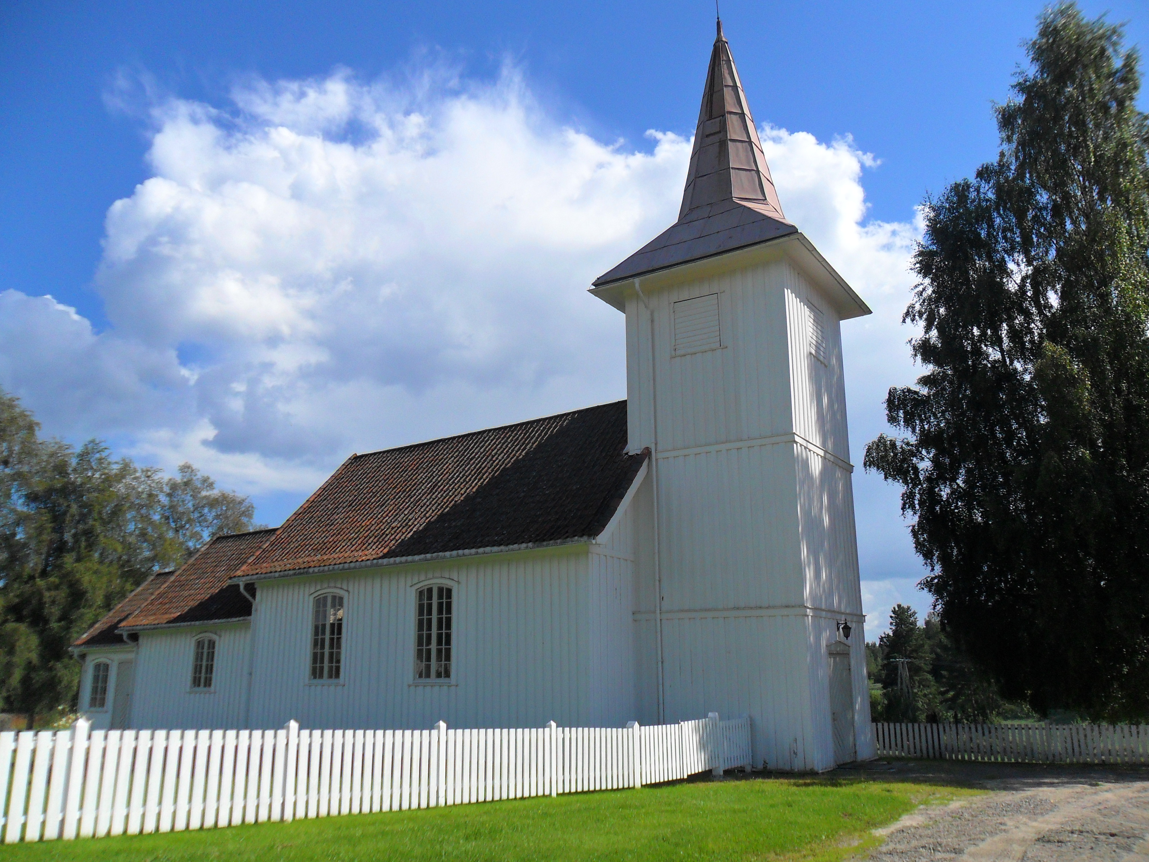 Helgen church in Nome county, Telemark, Norway